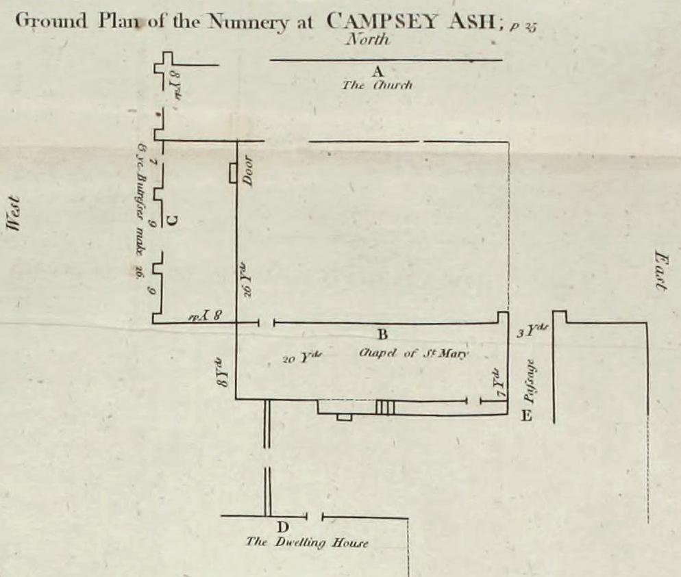 Groundplan of the Priory founded c. 1195 at Campsea Ash, Suffolk, as seen and interpreted in 1790